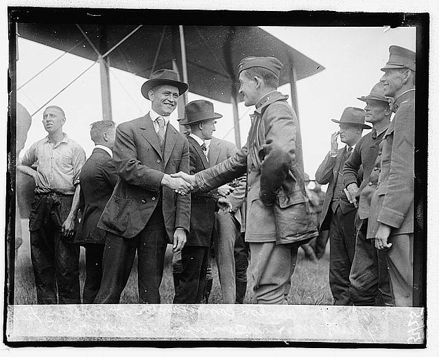 Maj. Scanlon, Commander at Bolling field, greets Mr [Alfred W.] Lawson upon his arrival